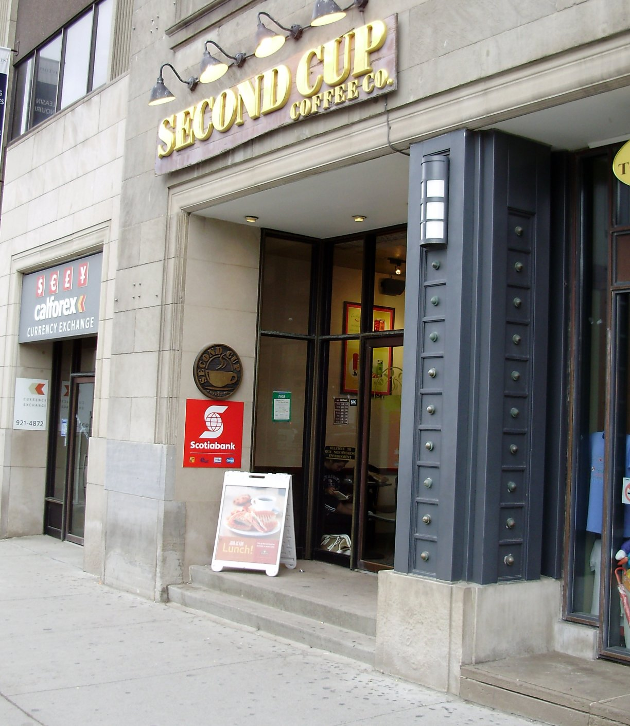 A Second Cup café on Bloor Street West in Toronto.